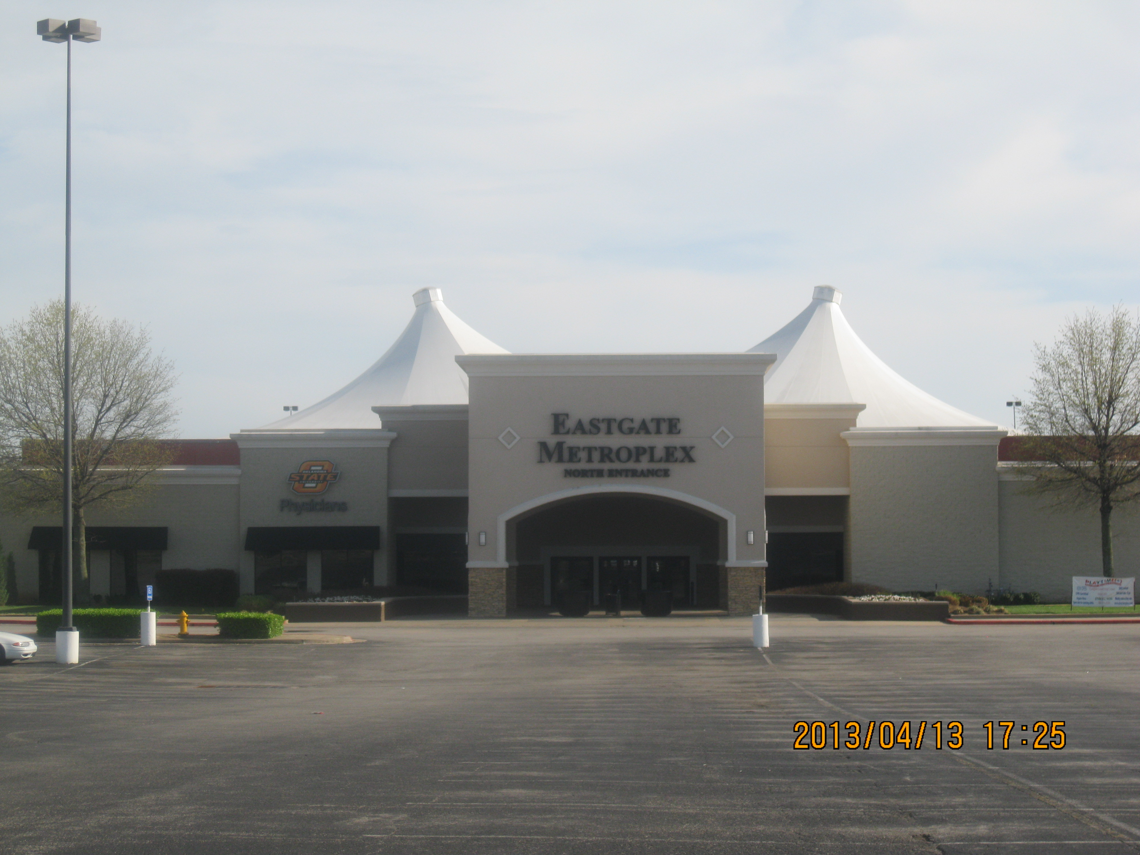 fabric roof over Eastgate Metroplex in Tulsa OK